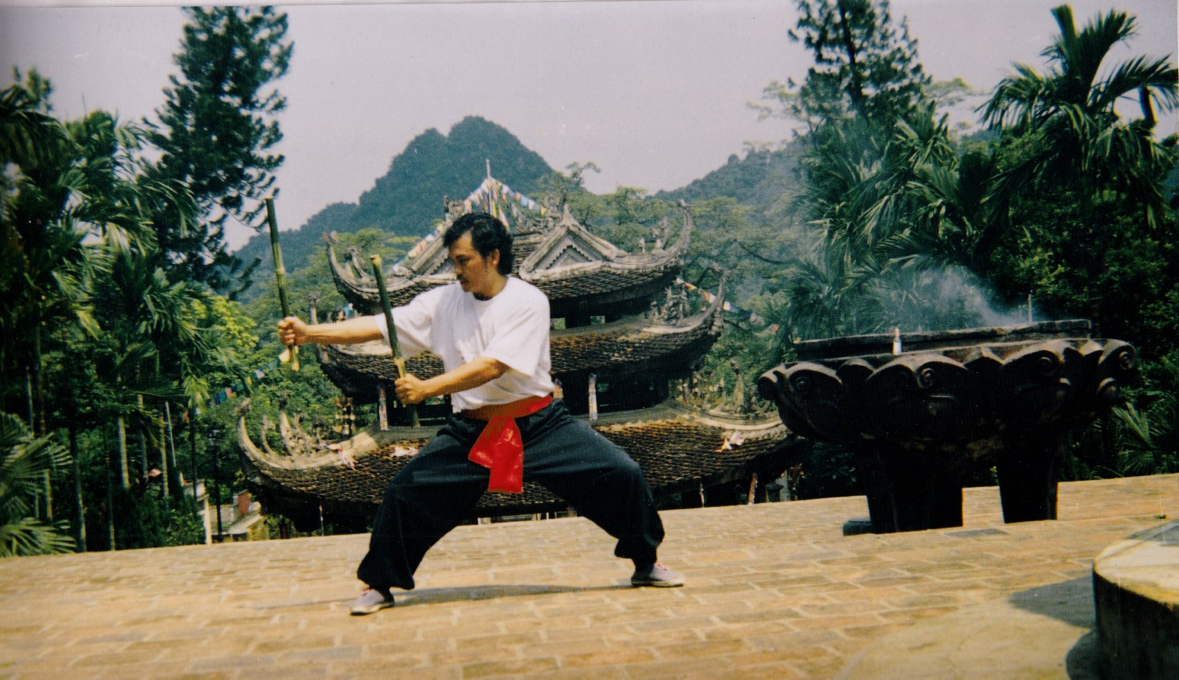 master long of vo khi dao style